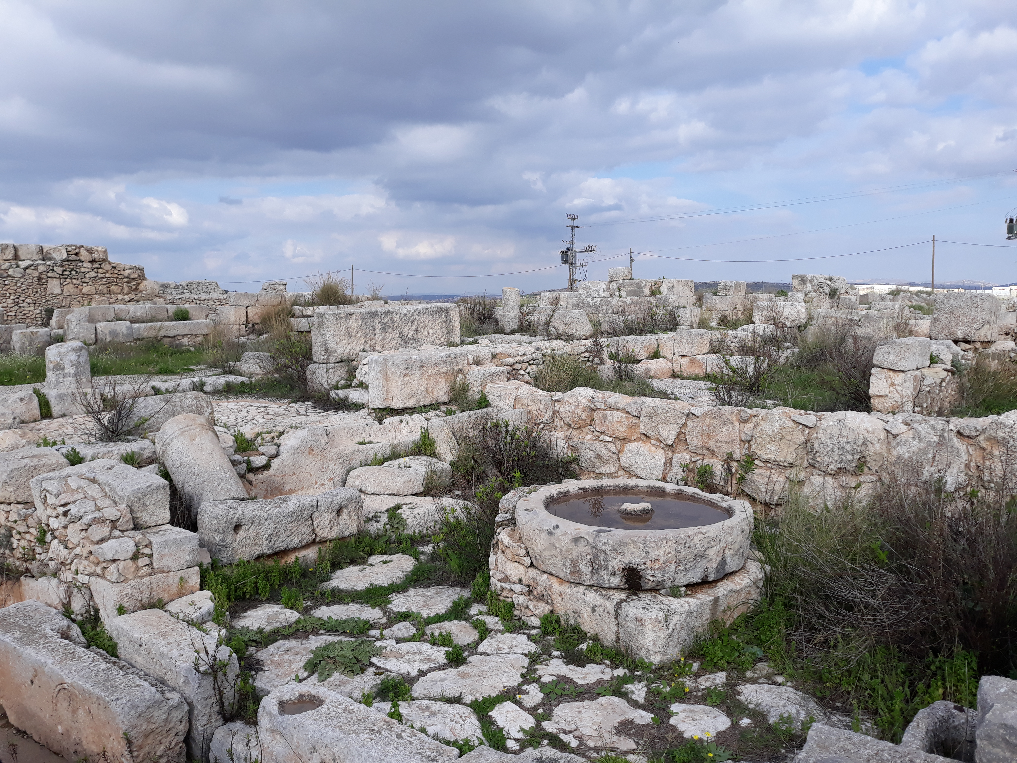 Overview of the Deir Samaan archeologic site in Samaria